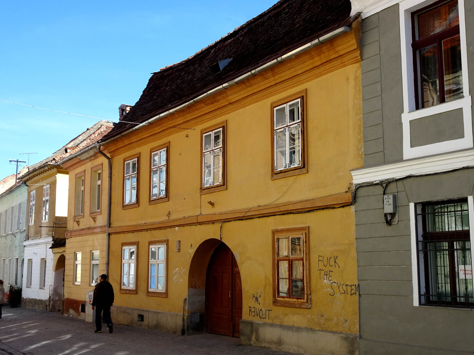 House on Postăvarului street in Brașov; house number 36